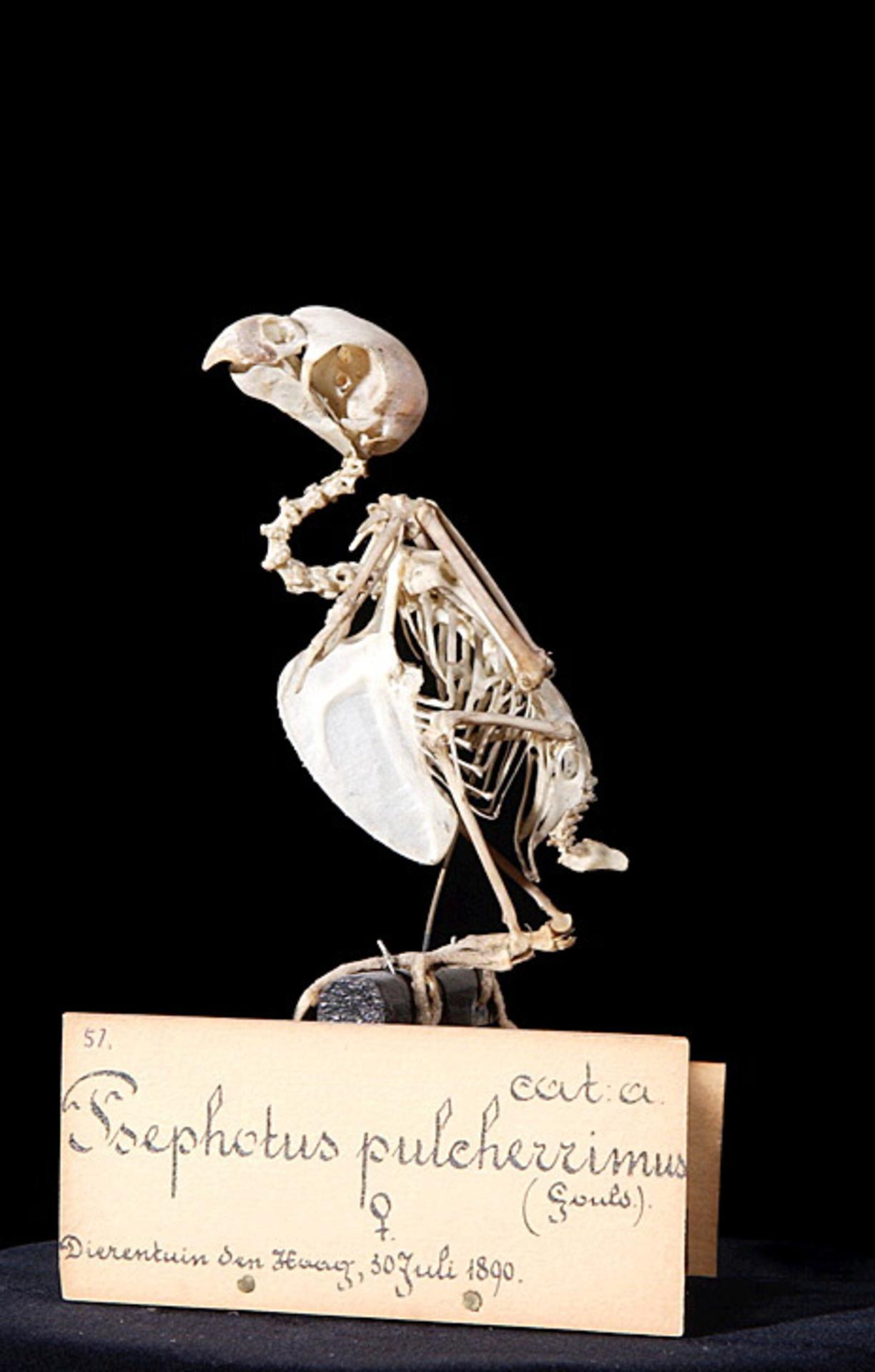 Psephotus pulcherrimus (Gould, 1845)